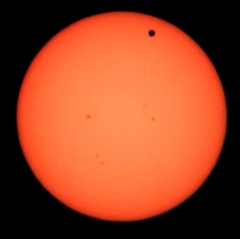 Transit of Venus, photographed from Minneapolis on 5 June 2012 at 18:00:36 CDT, 23:00:36 UTC. Camera time: 55 seconds fast.